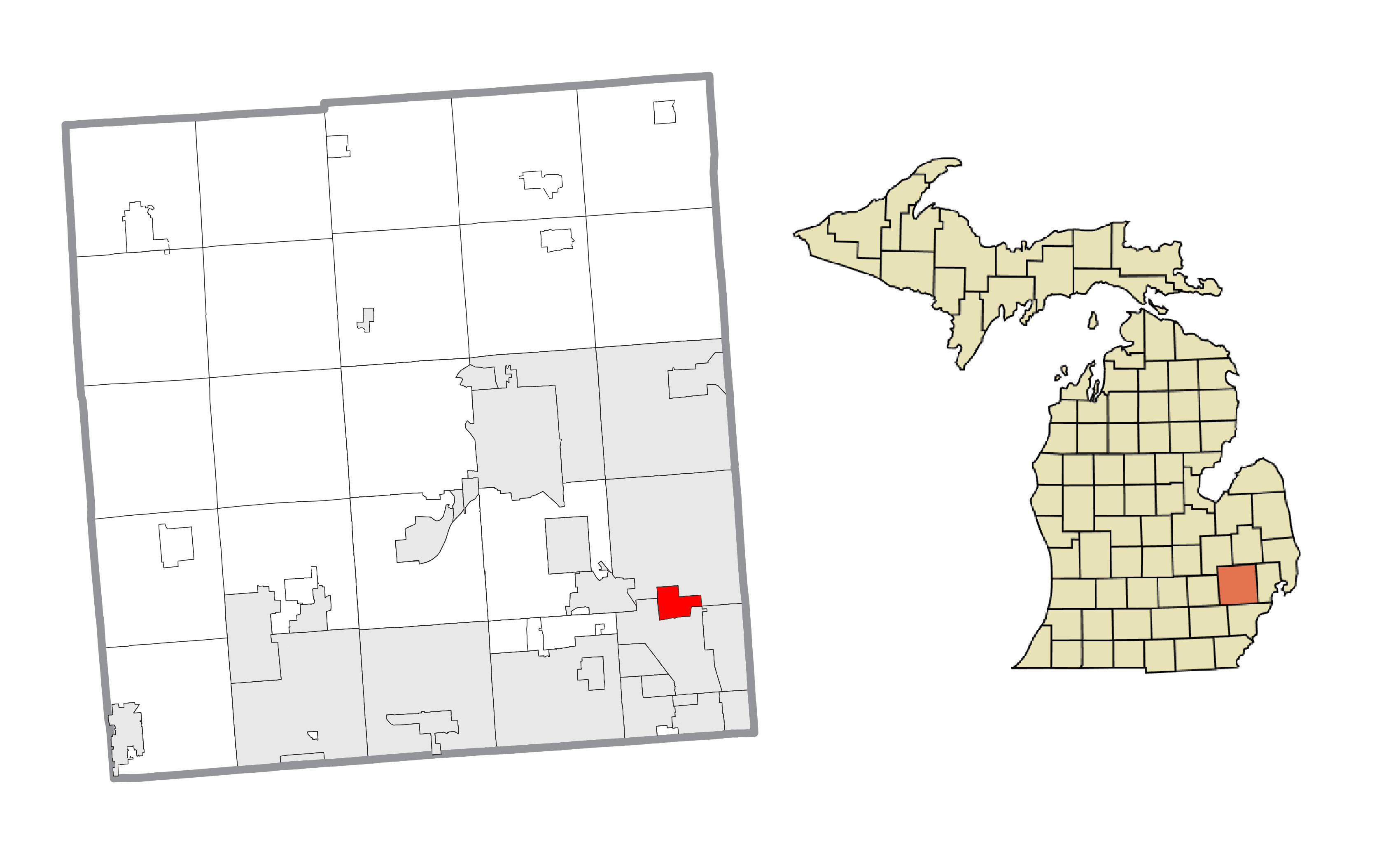 Clawson, MI